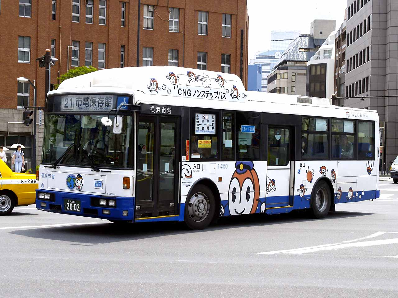 Yokohama City Bus special marked "Hamarin". Model: Nissan Diesel KL-UA452KAN + Fuji Heave Industries License plate: KNY230 KE2002 Place: Honcho, Naka ward, Yokohama city, Kanagawa Japan